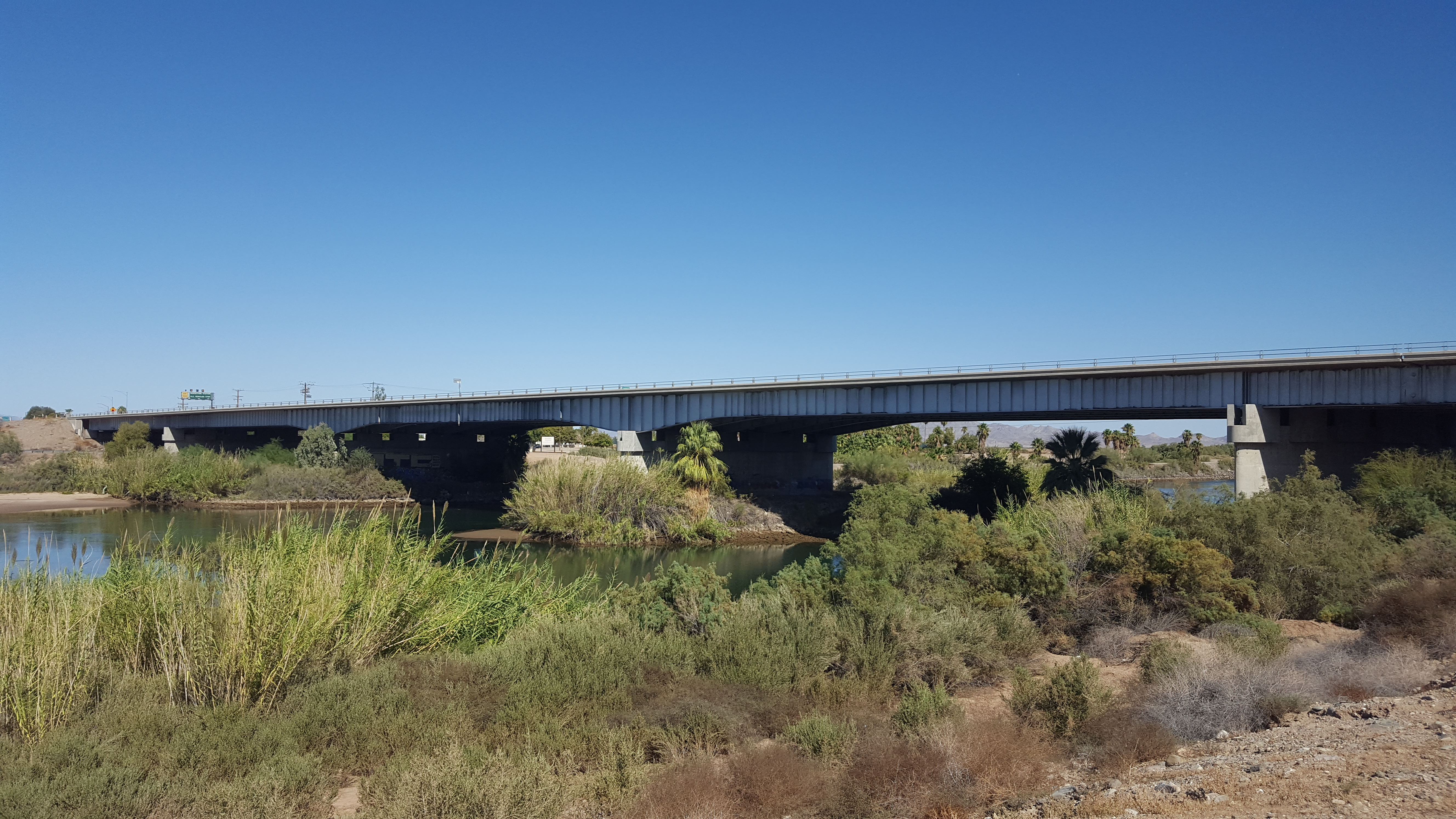 Interstate 10/US Highway 95 bridge over the Colorado River viewed from Ehrenberg